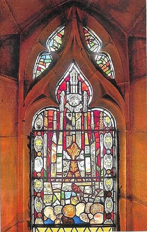 templar